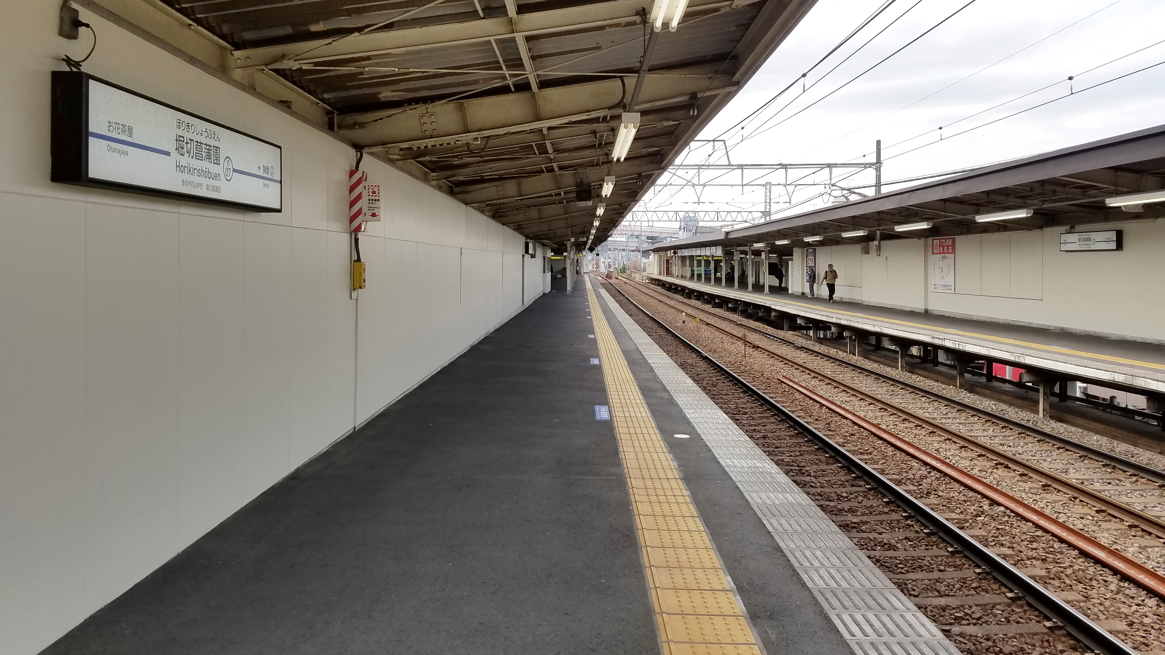 The platforms at Horikiri-Shōbuen Station on the Keisei Main Line in Katsushika Ward, Tokyo, Japan